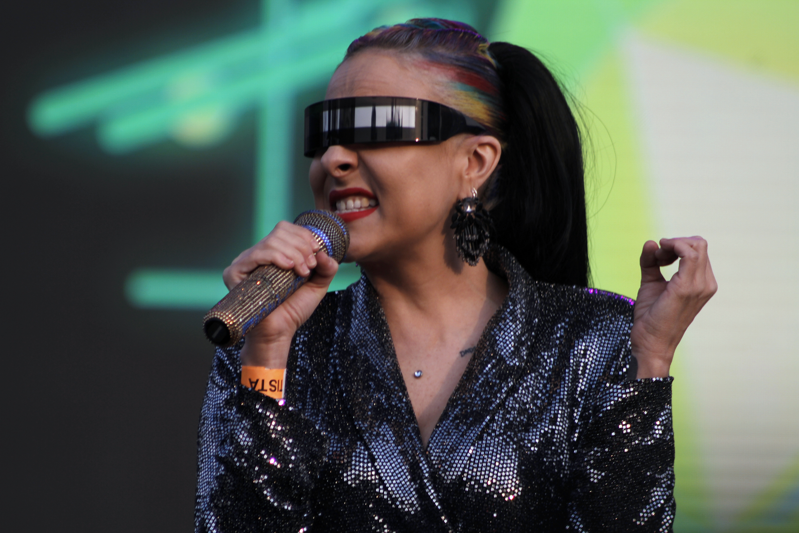 Maria Daniela y su sonido lasser on concert in Mexico City. Saturday, 15 December, 2018. Picture by Maritza Rios / Secretaria de Cultura de la Ciudad de Mexico.